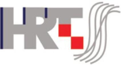 HRT Simfonijski Orkestar